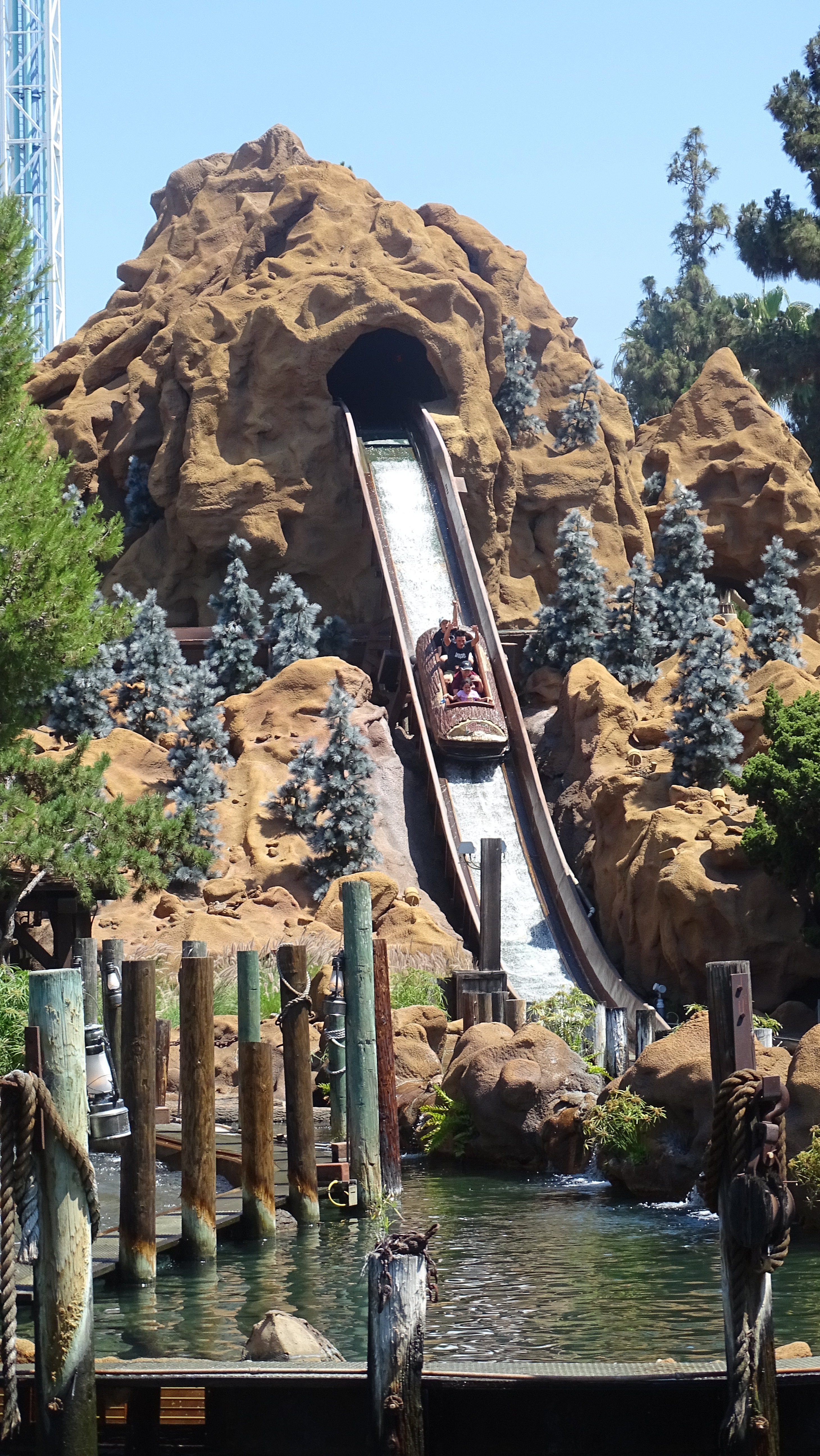 The Timber Mountain Log Ride features a 42 ft drop finale